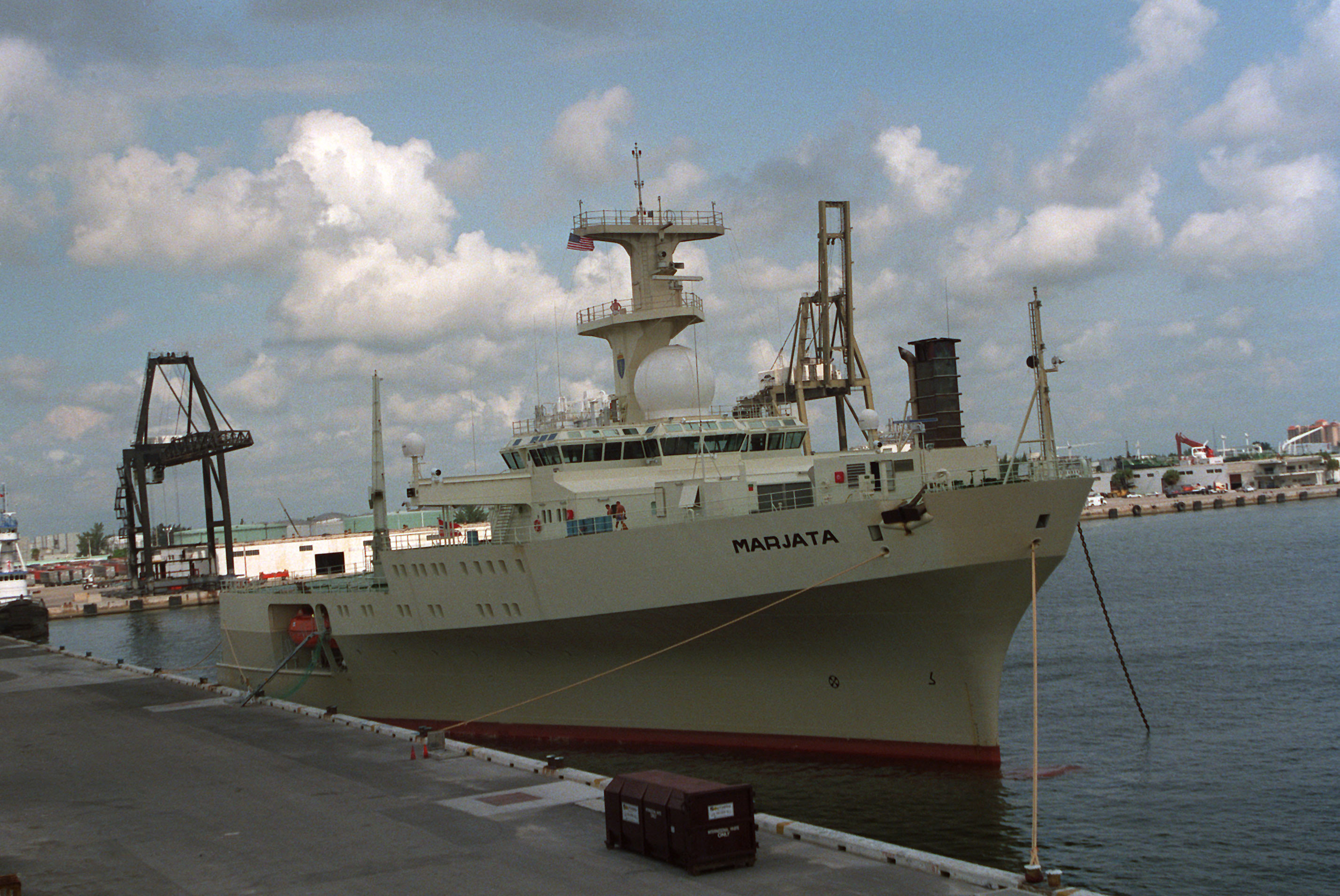 A starboard bow view of the Norwegian intelligence collection ship Marjata (IMO Number: 9107277) tied up at the pier in Port Everglades.